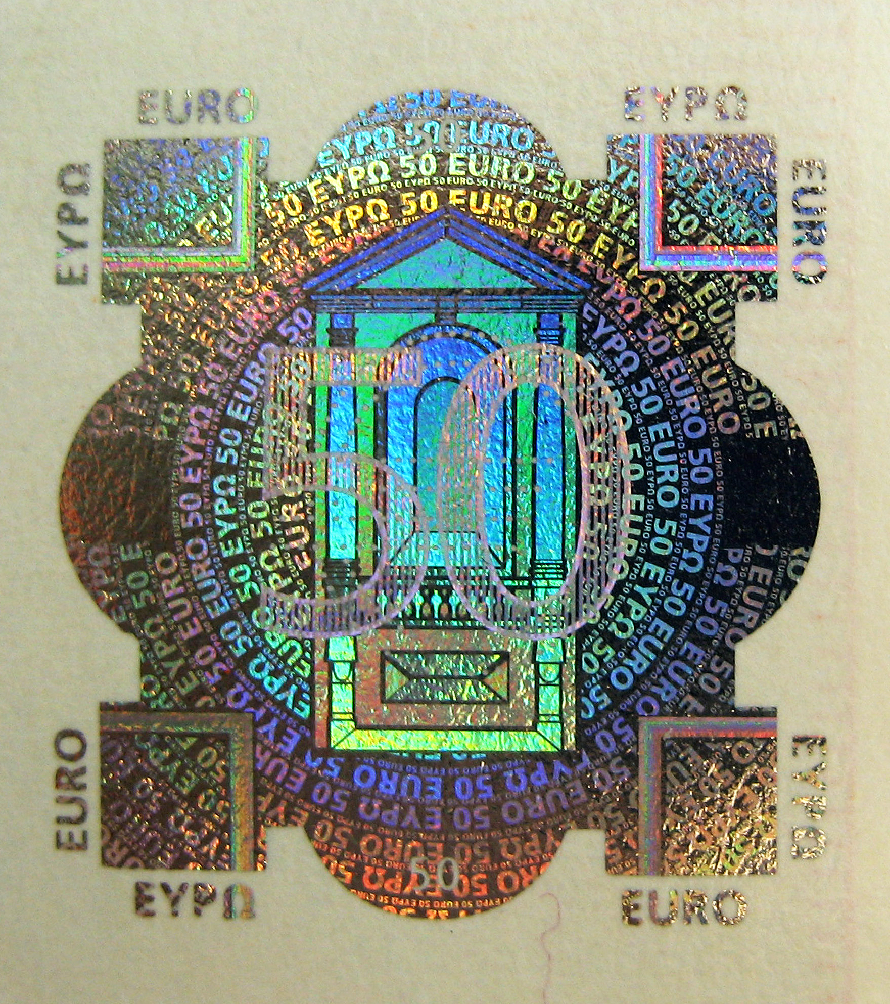 hologram on a 100-Euros bill